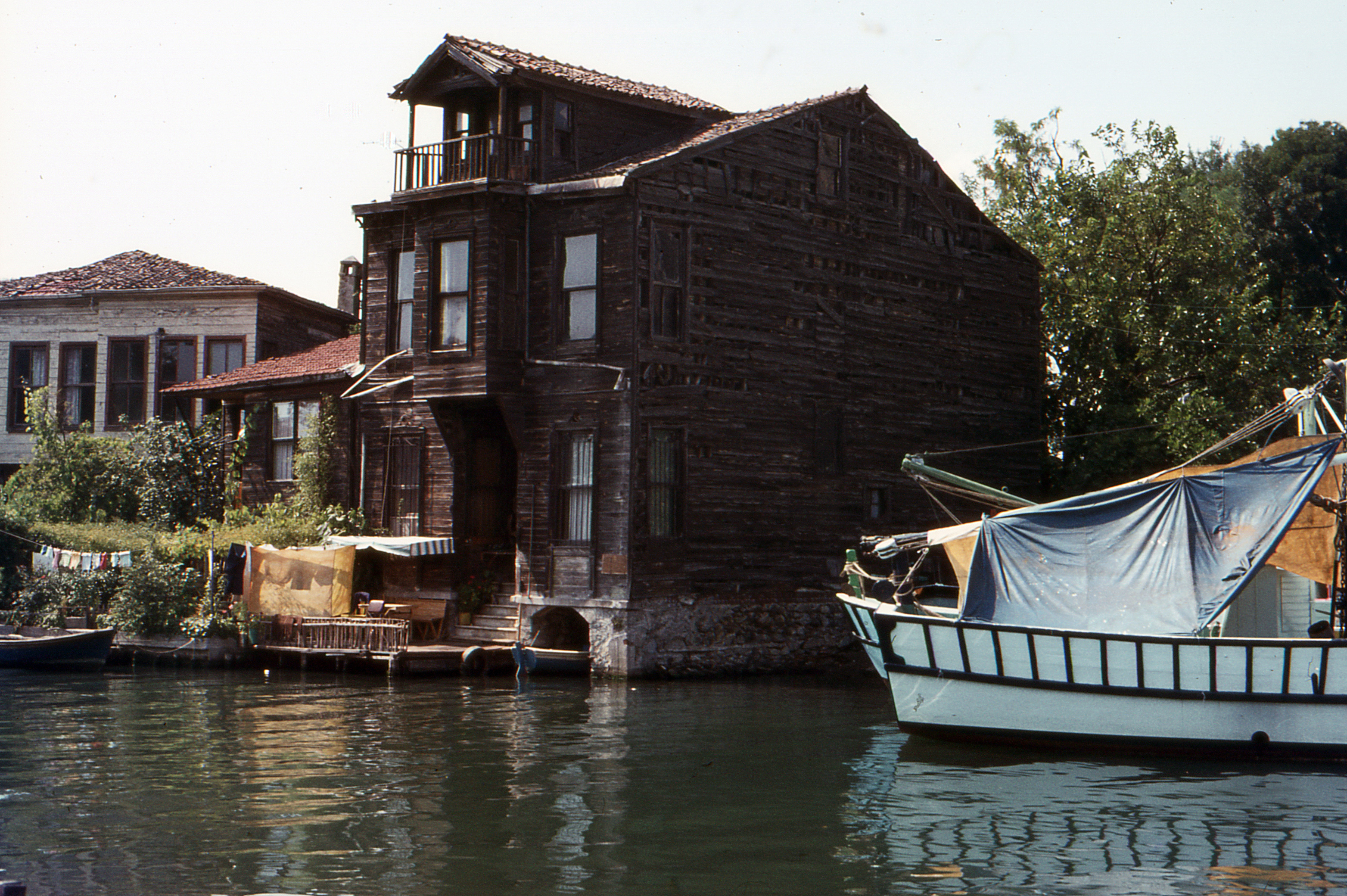 At the foot of the Anatolian castle, an old wooden house, summer residence at the water's bank, named Yalı from the end of 19th century.